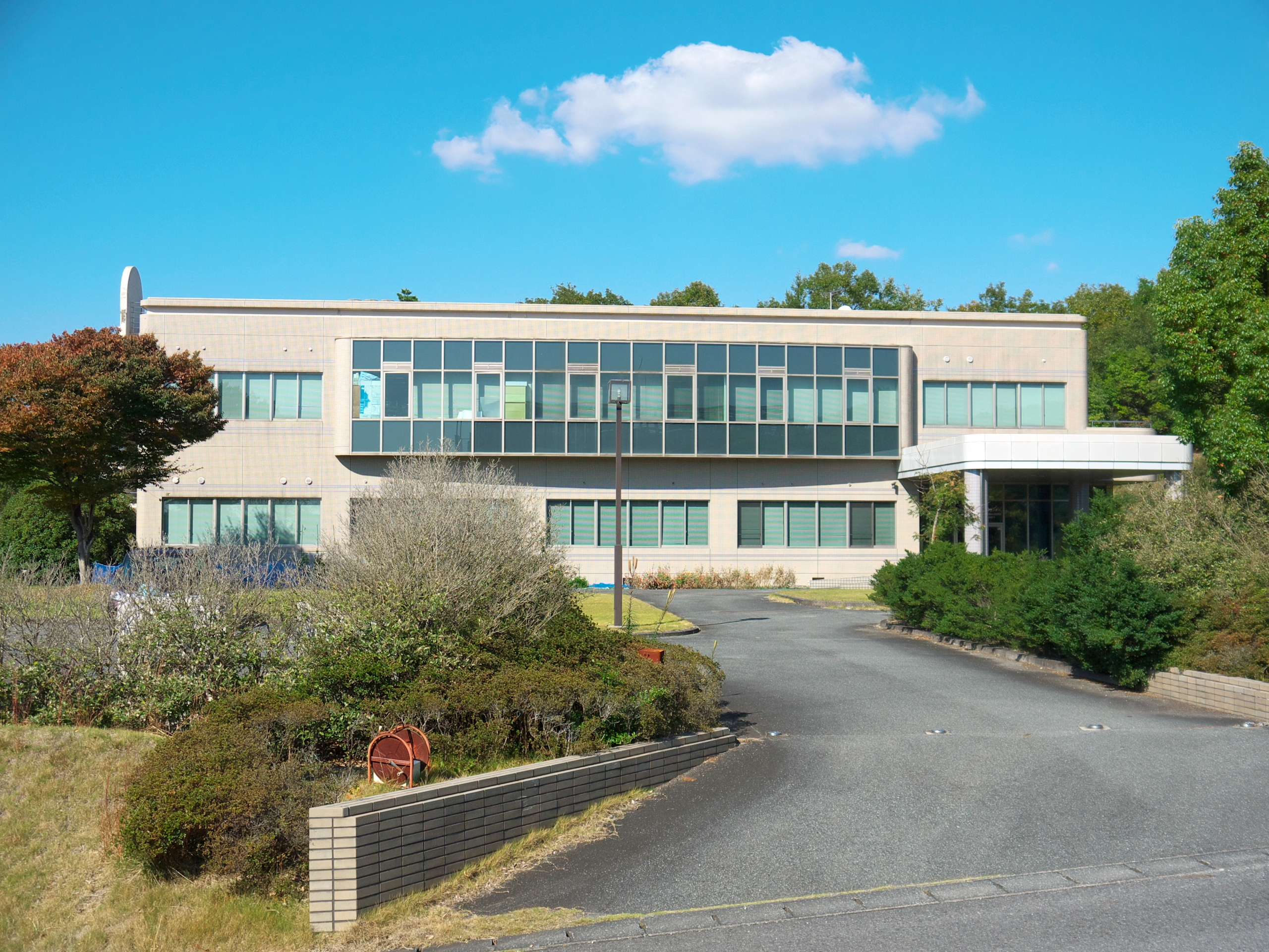 Regional Cooperative Research Center of Okayama University in Okayama Research Park, Kita-ku, Okayama